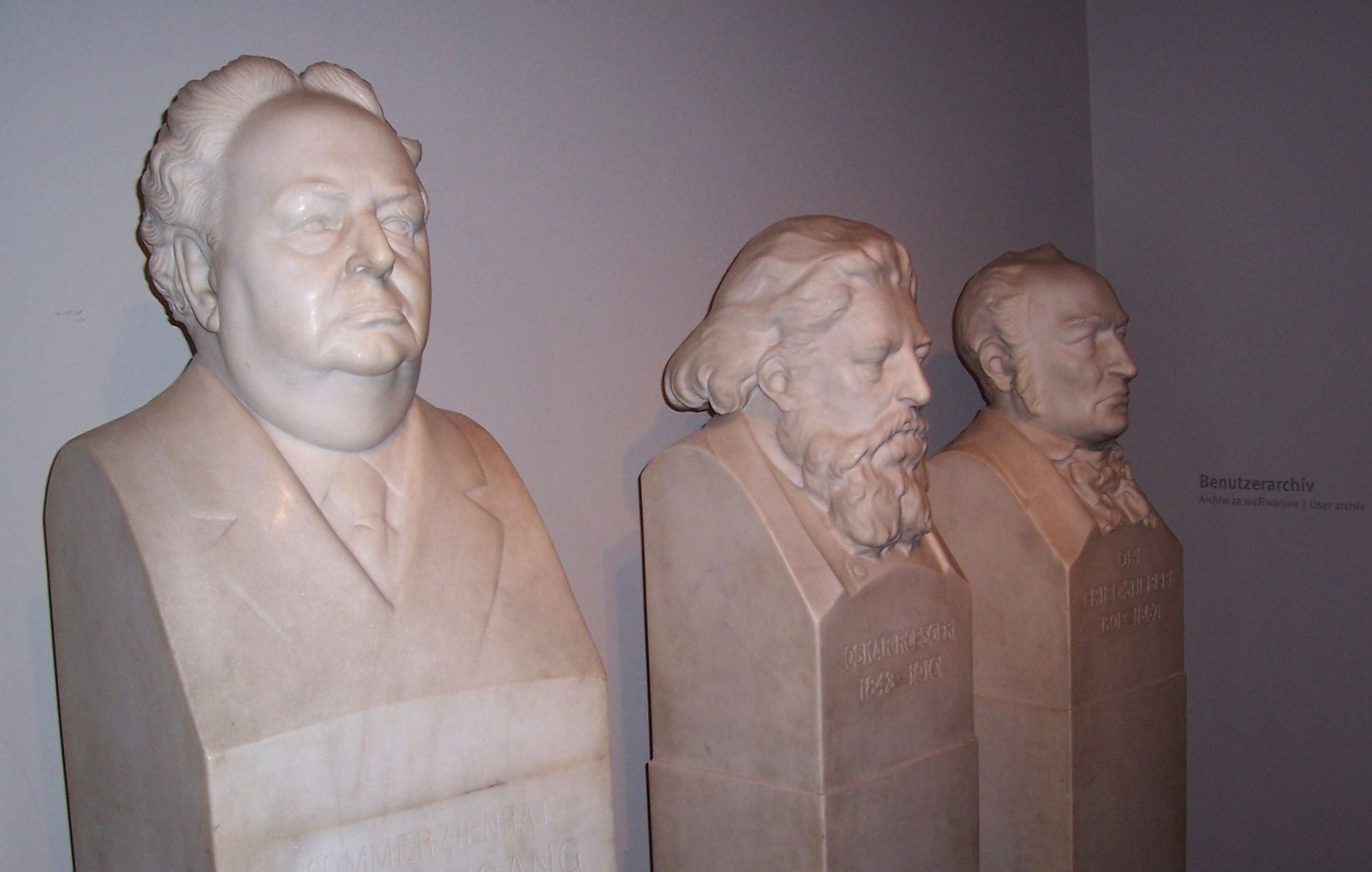 Otto Weigang, Oskar Roesger, Friedrich Karl Gustav Stieber - founders of the Bautzen museum